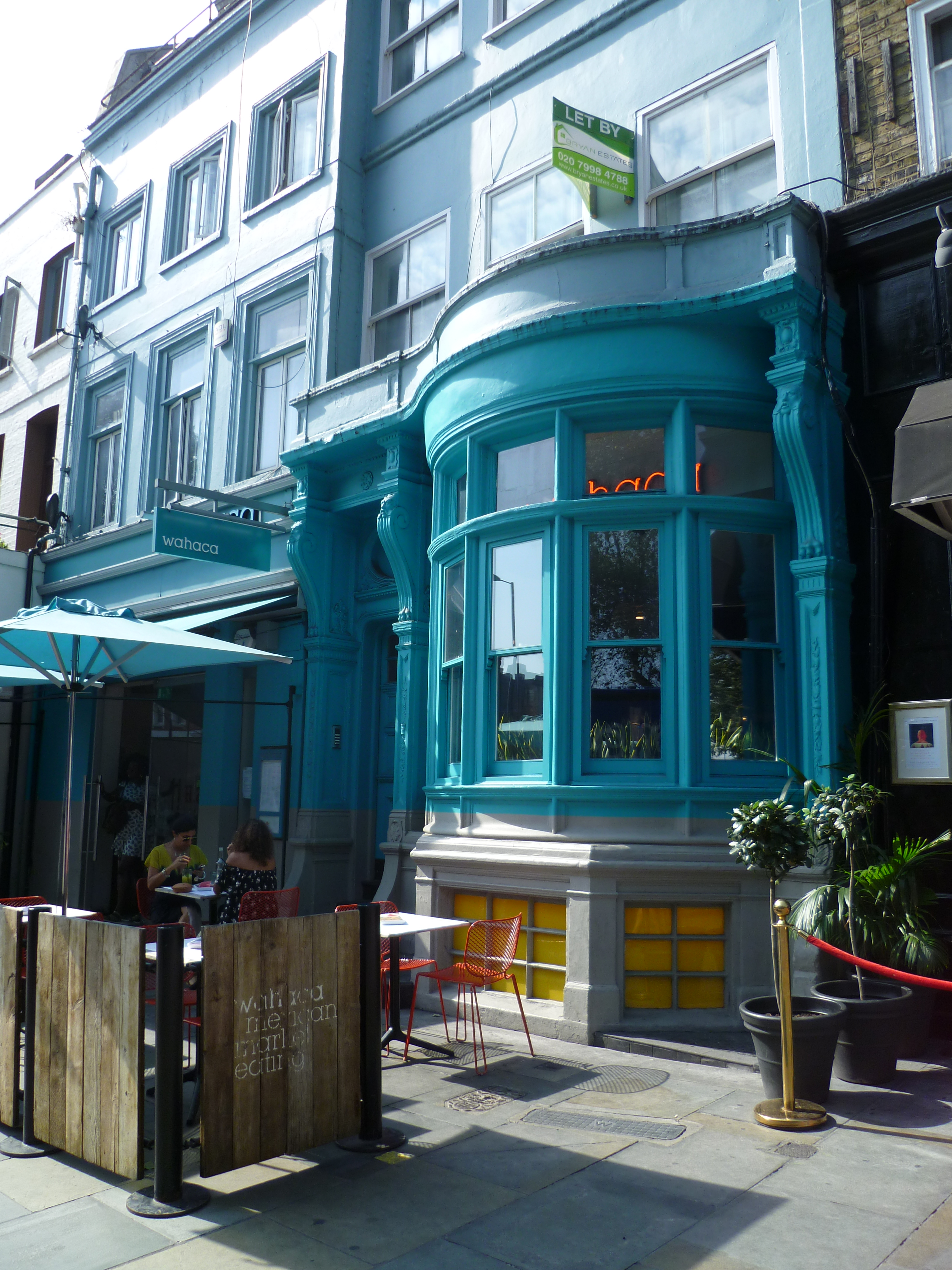 Islington